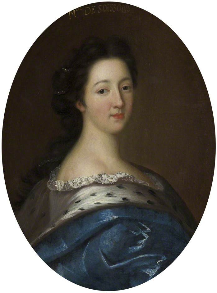 This portrait is identified as being Princess Jeanne of Savoy (1665–1705). She was the daughter of Prince Eugene Maurice of Savoy, Count of Soissons and Dreux (1635–1673) and Olimpia Mancini (1640–1708).